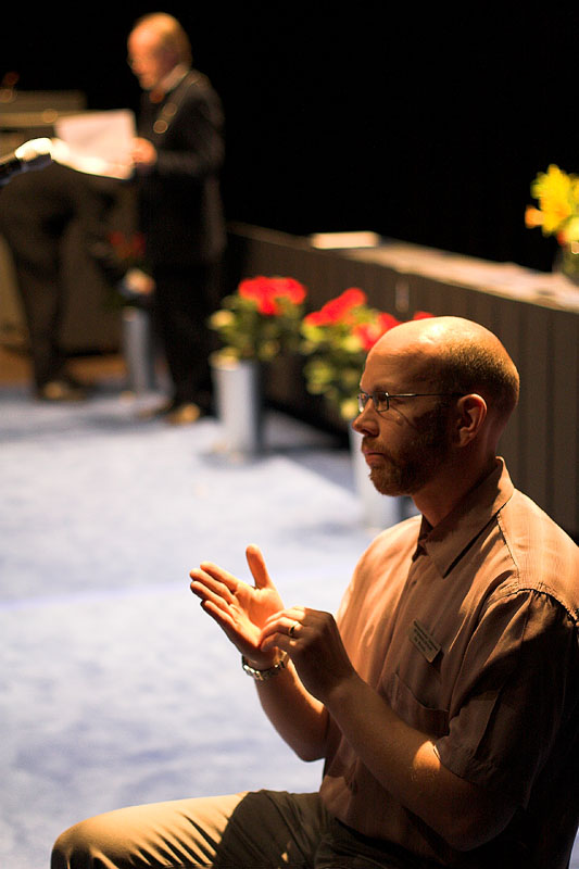 One of the people being celebrated was one guy who got his doctorate (Not the one in the picture). He had become deaf. His research was about making stuff accessible to people who can't hear, see, or understand the language. By all accounts, his work made a quite an impression. This guy was interpreting the proceedings into sign language for his benefit -- and, I would expect, any other deaf people in the audience.